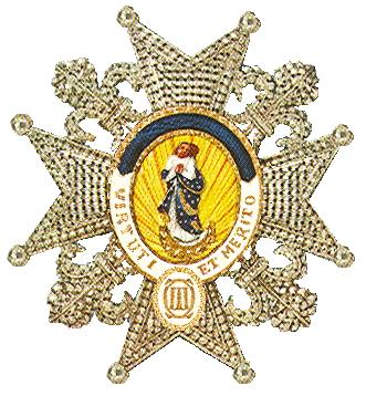 Grand Cross of the Order